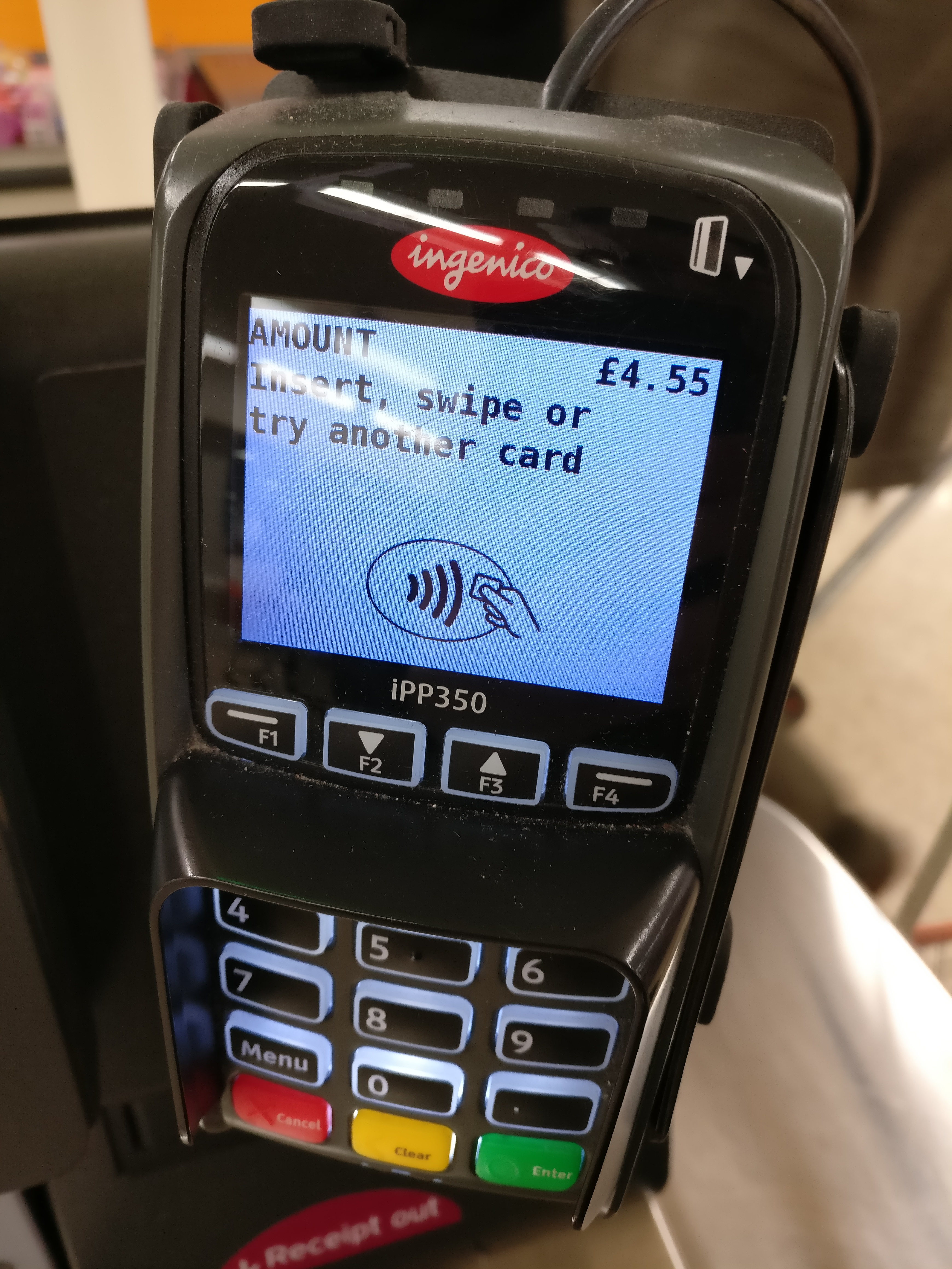 An Ingenico iPP350 credit/debit card terminal in use. This photo was taken in the United Kingdom. The display of this terminal shows a card error message.